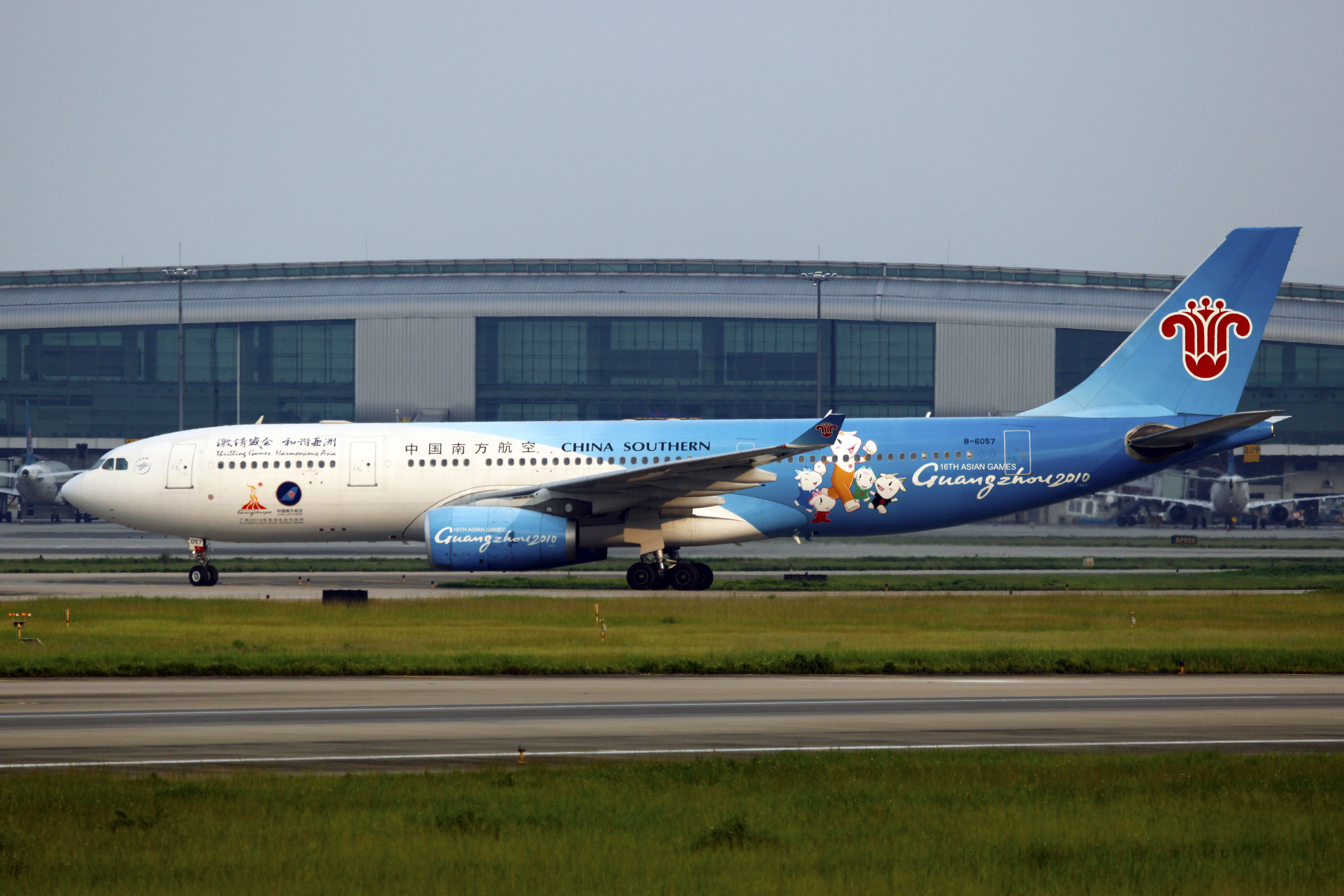 B-6057 | China Southern Airlines | Airbus A330-243 | 16th Asian Games, Guangzhou 2010 Livery | Guangzhou Baiyun International Airport [CAN]